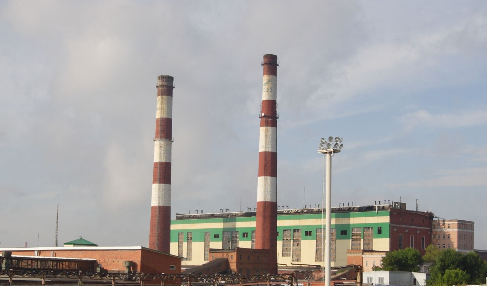 Thermoelectric plant # 3 in Ufa